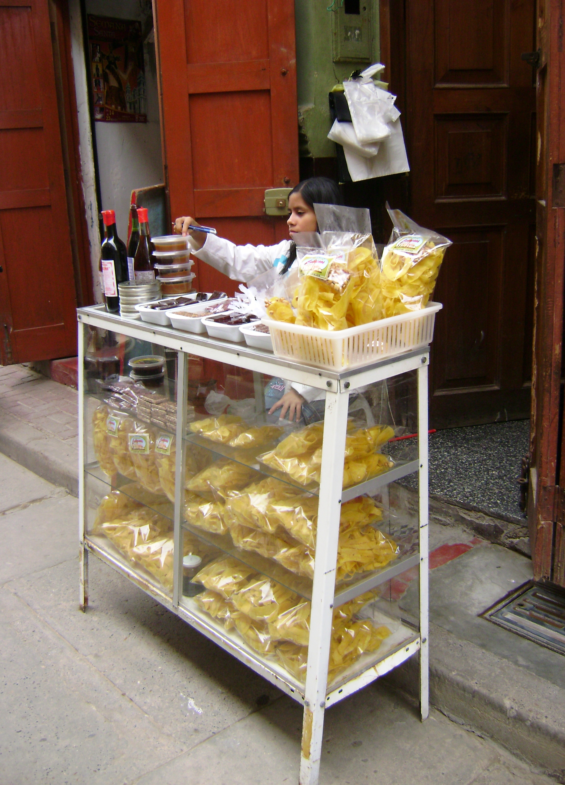 A girl selling sweets, chifles, honey, natillas, dulce de membrillo, manjarblanco and algarrobina in Comercio Street. Catacaos, Piura, Peru.